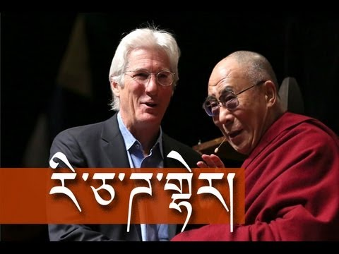 Richard Gere and the Dalai Lama.